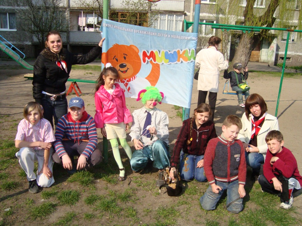 The childrens movement BEARS, Federal project youth movement NASHI. Rossia, city Kaliningrad. Children with guides participate in the children's game Republic yard